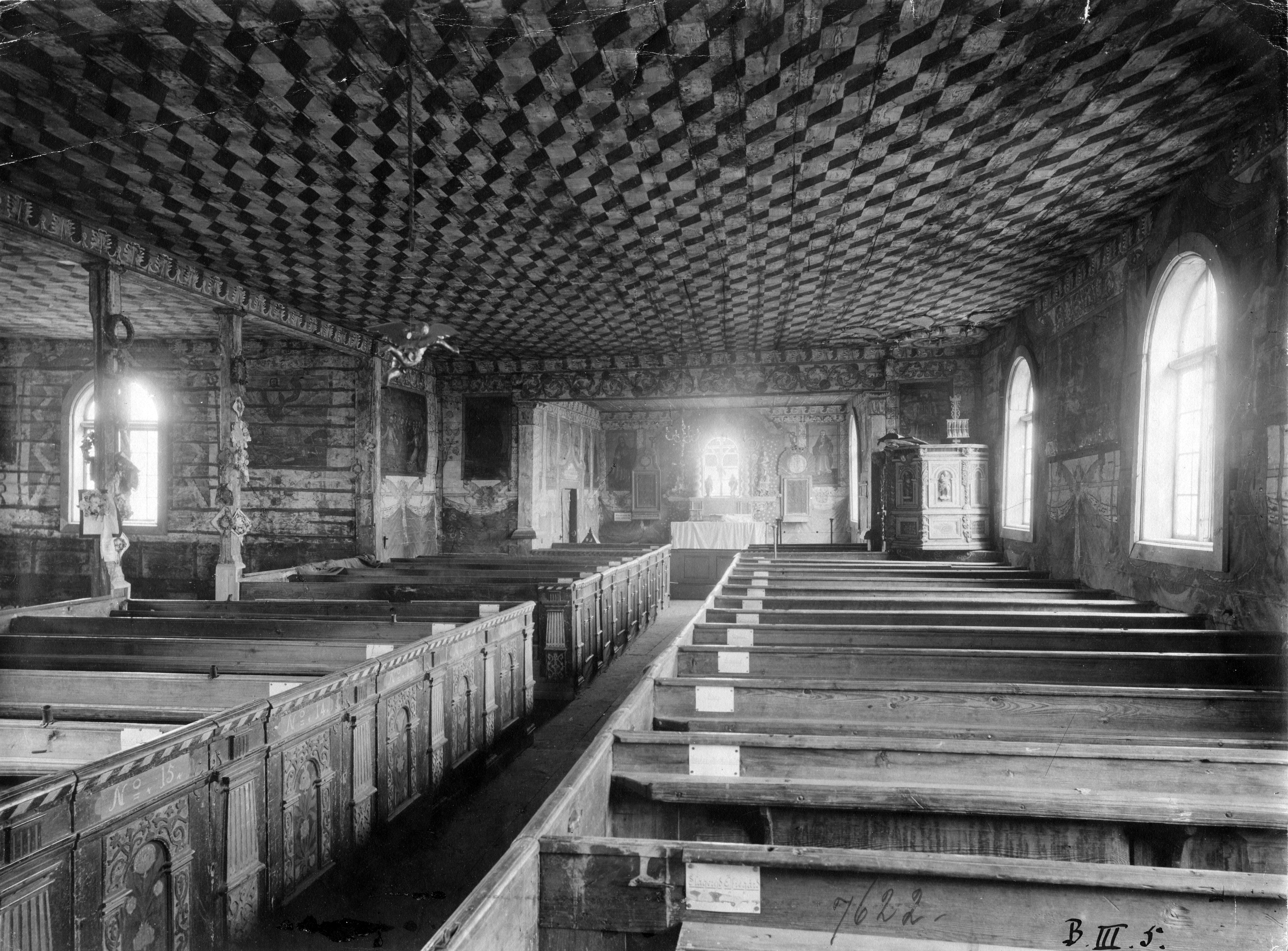 Interior of Bäckaby old church.